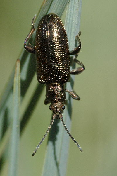 Picture taken in Commanster, Belgian High Ardennes . Species: Plateumaris sericea